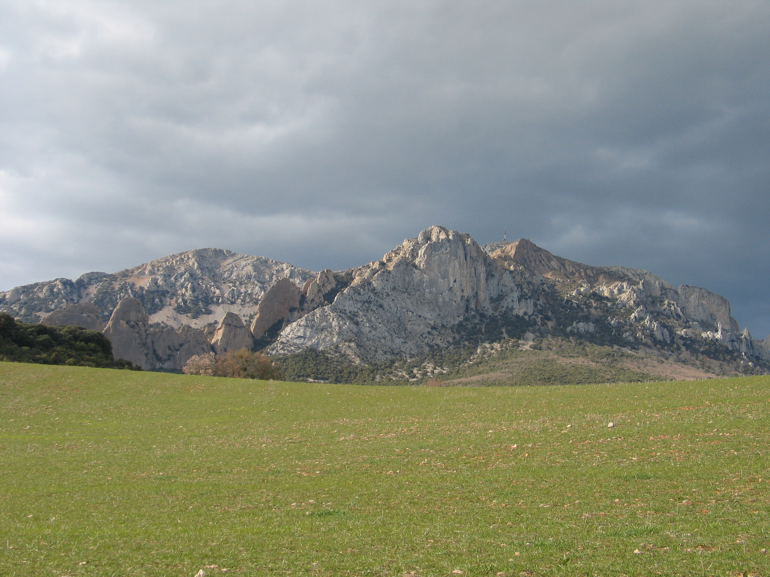 Natura 2000. Araba